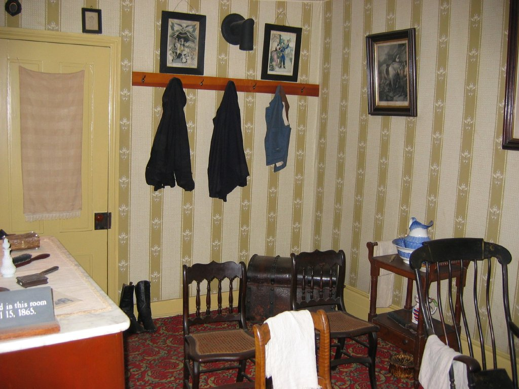 The room Abraham Lincoln died in at Petersen House Image released under GFDL with authors permission. Original